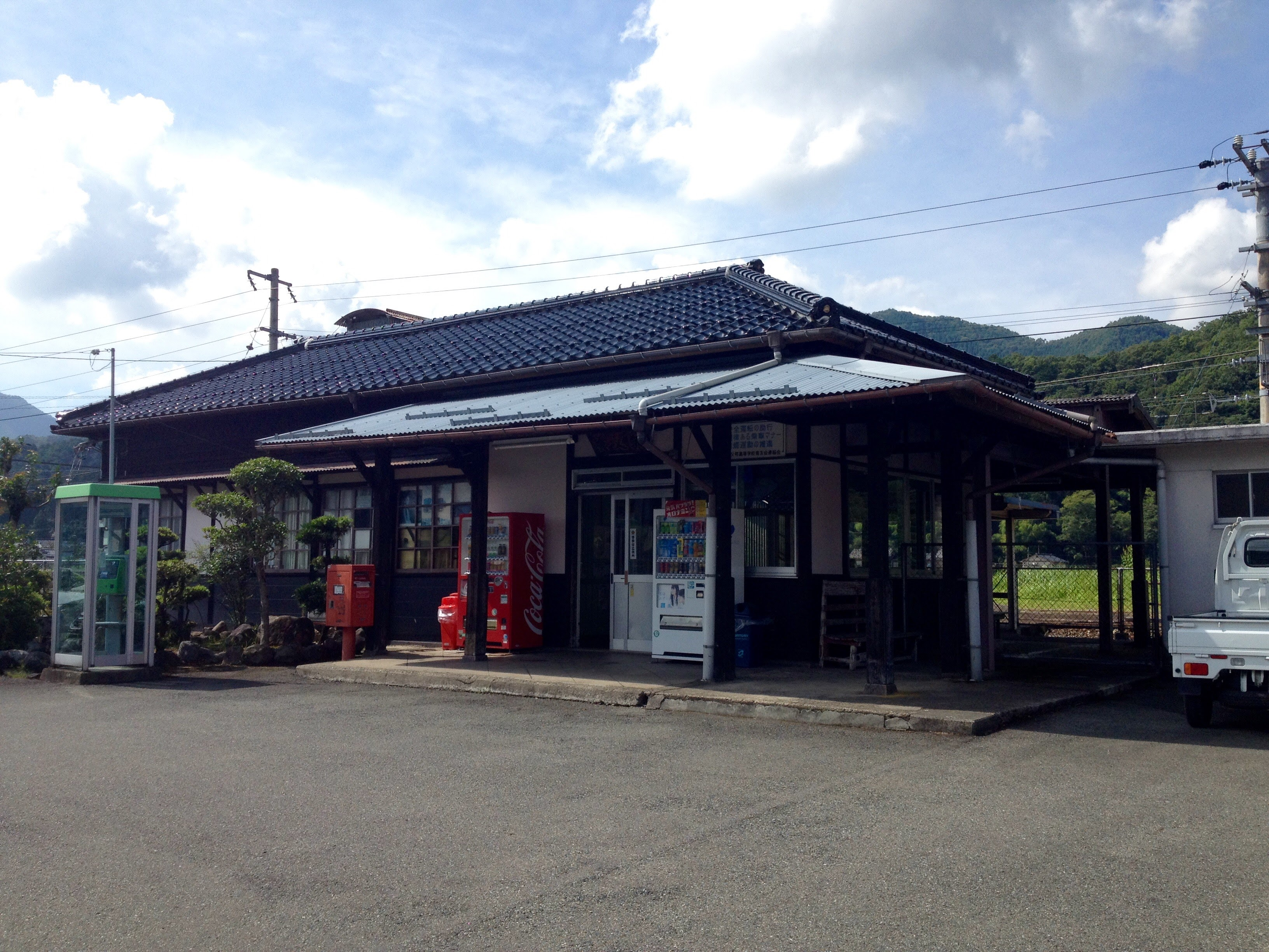 Yabu station in Yabu, Hyogo prefecture, Japan